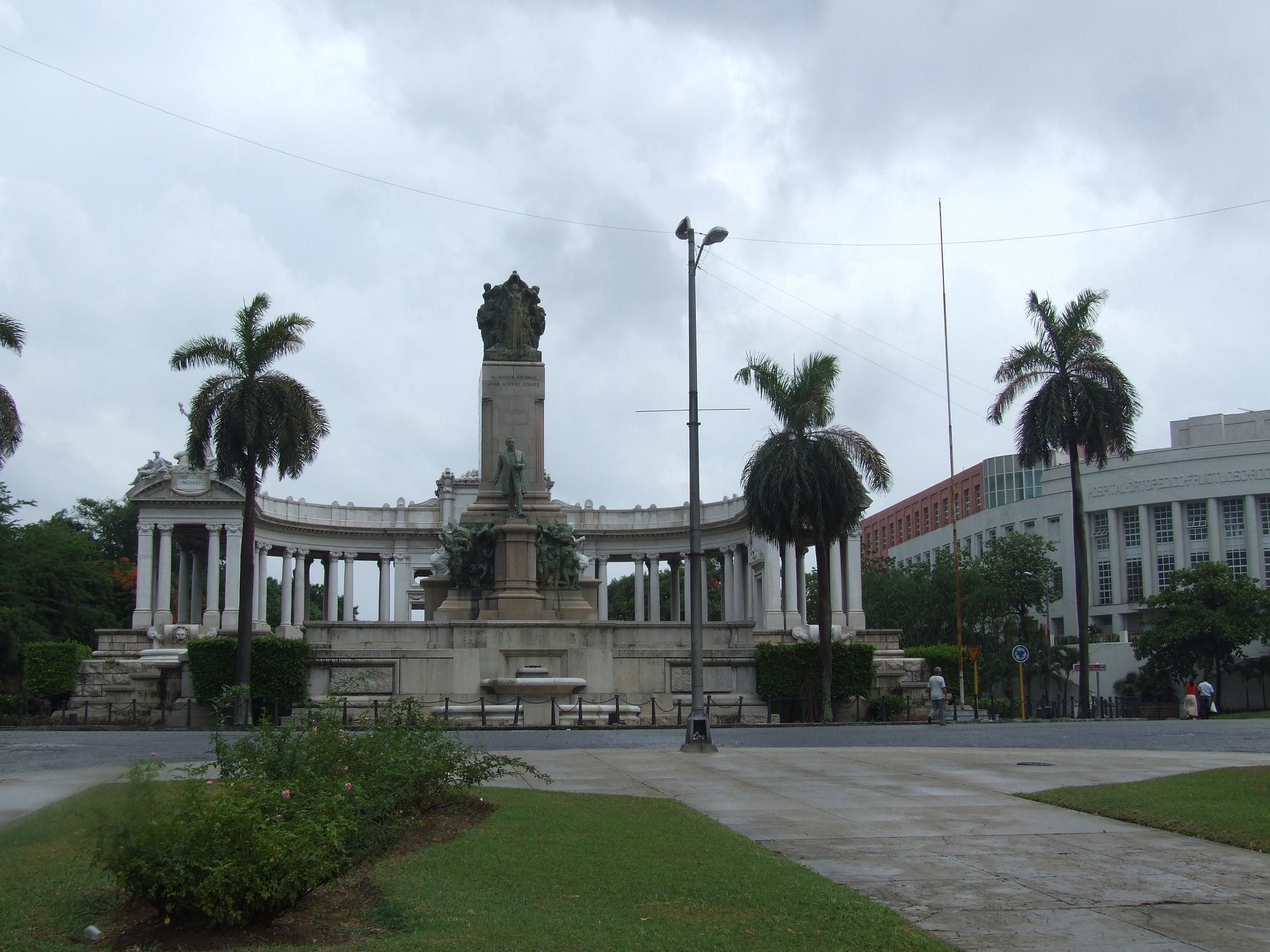 At the top of Avenida de Los Presidentes